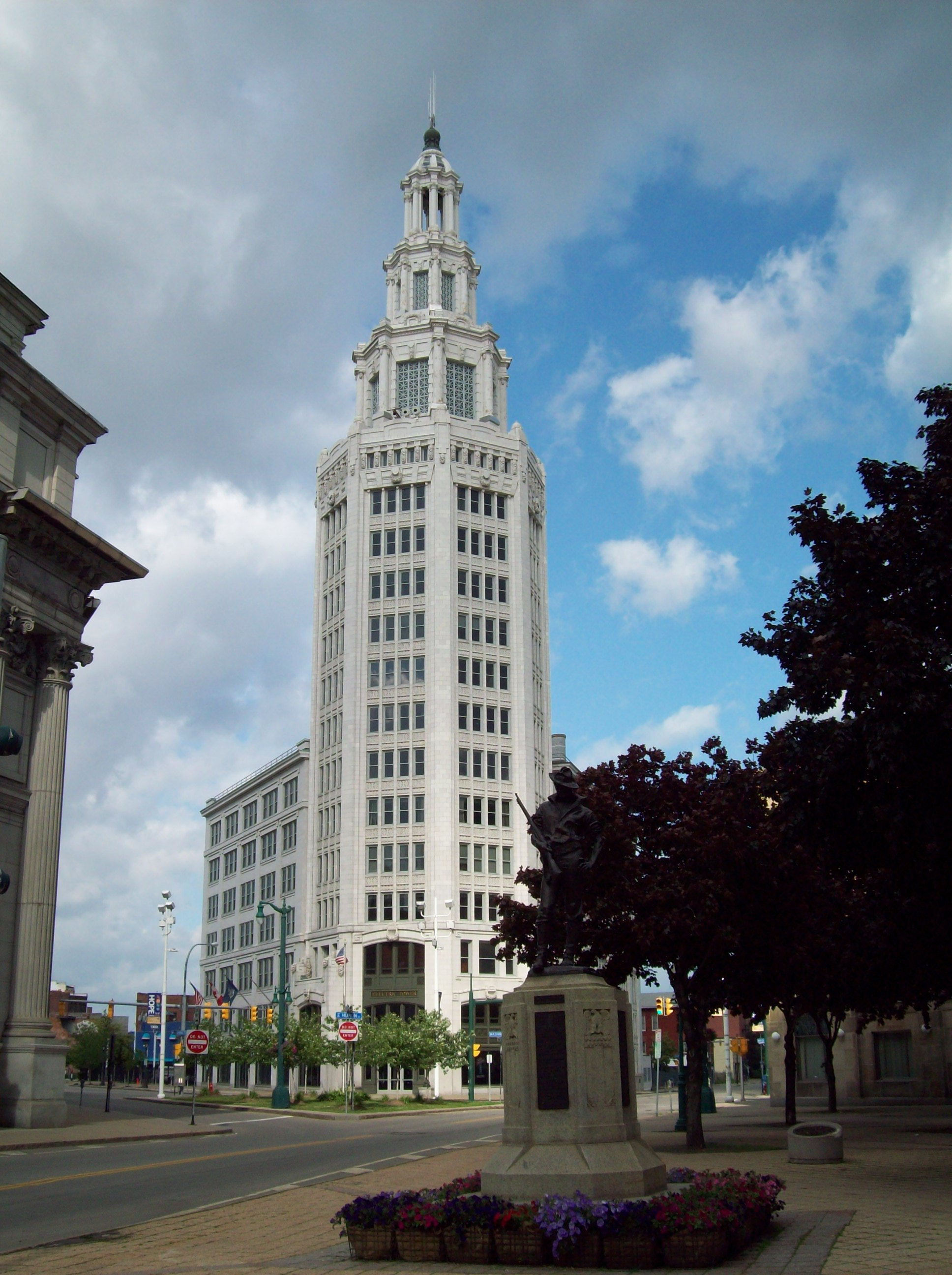 General Electric Tower, June 2009